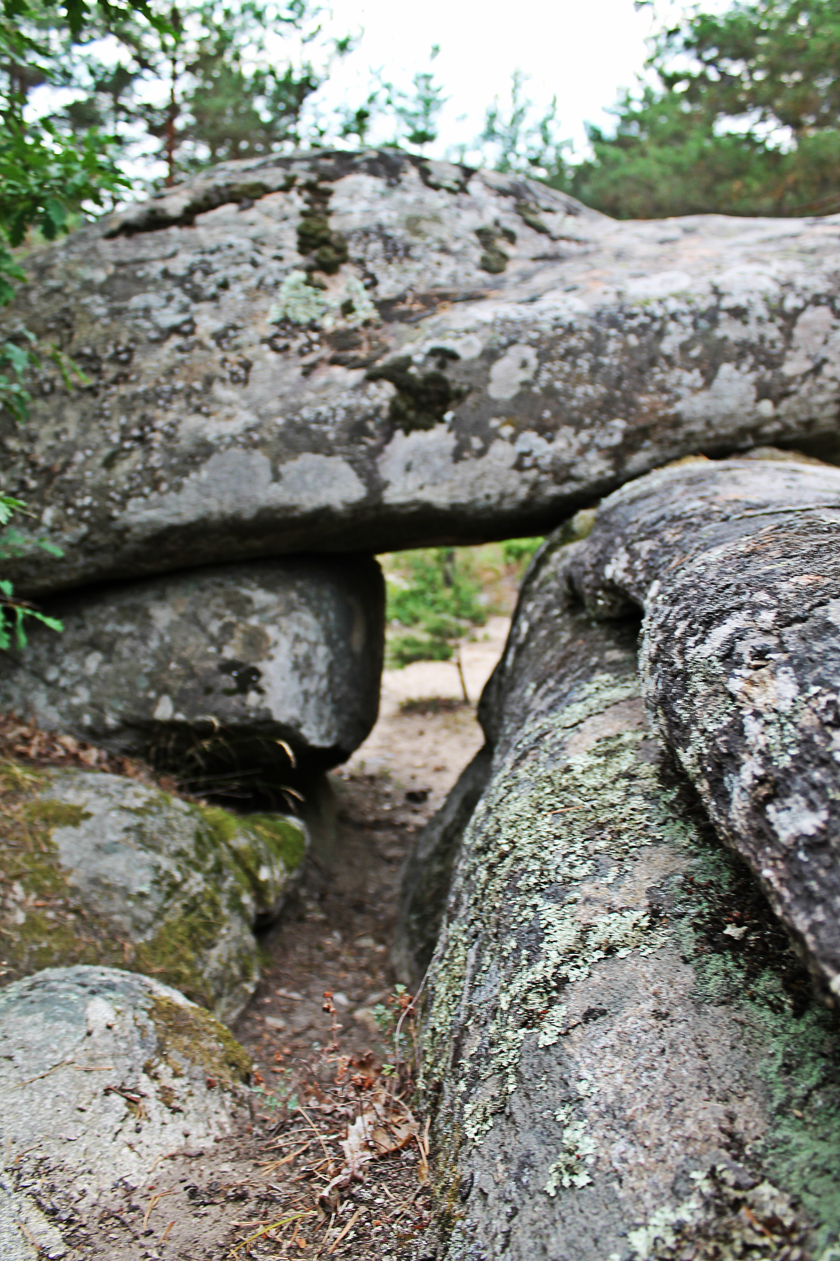 Arc_Dolno_Dryanovo_BG